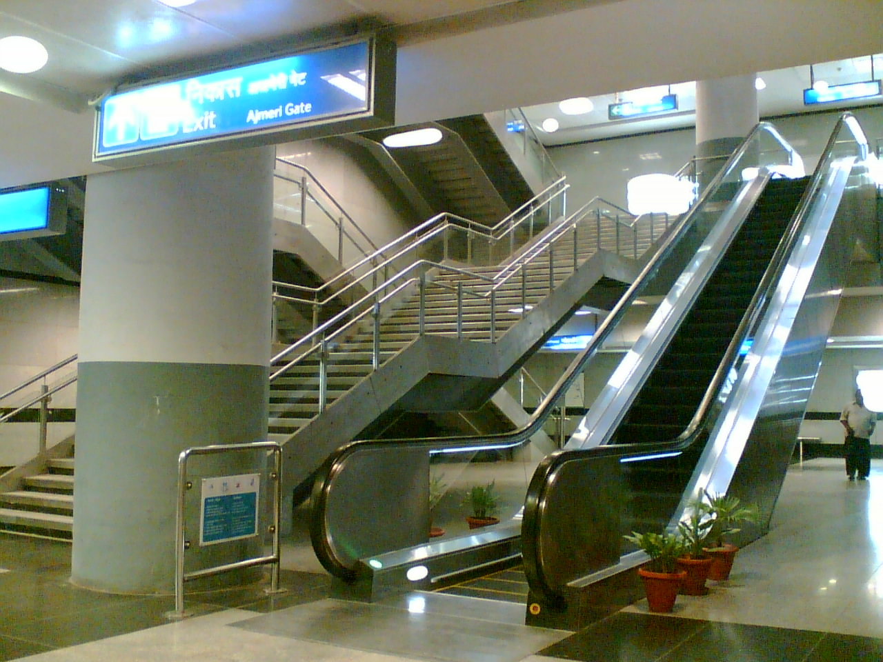 Inside a metro station